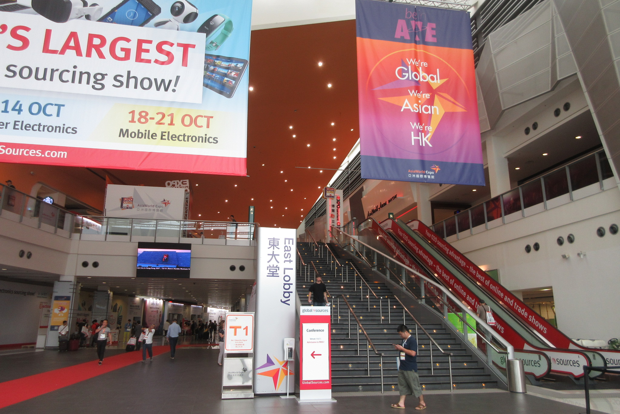 HK Arena 亞洲國際博覽館 AsiaWorld-Expo GSOL 環球資源 Global Sourcing in October 2017